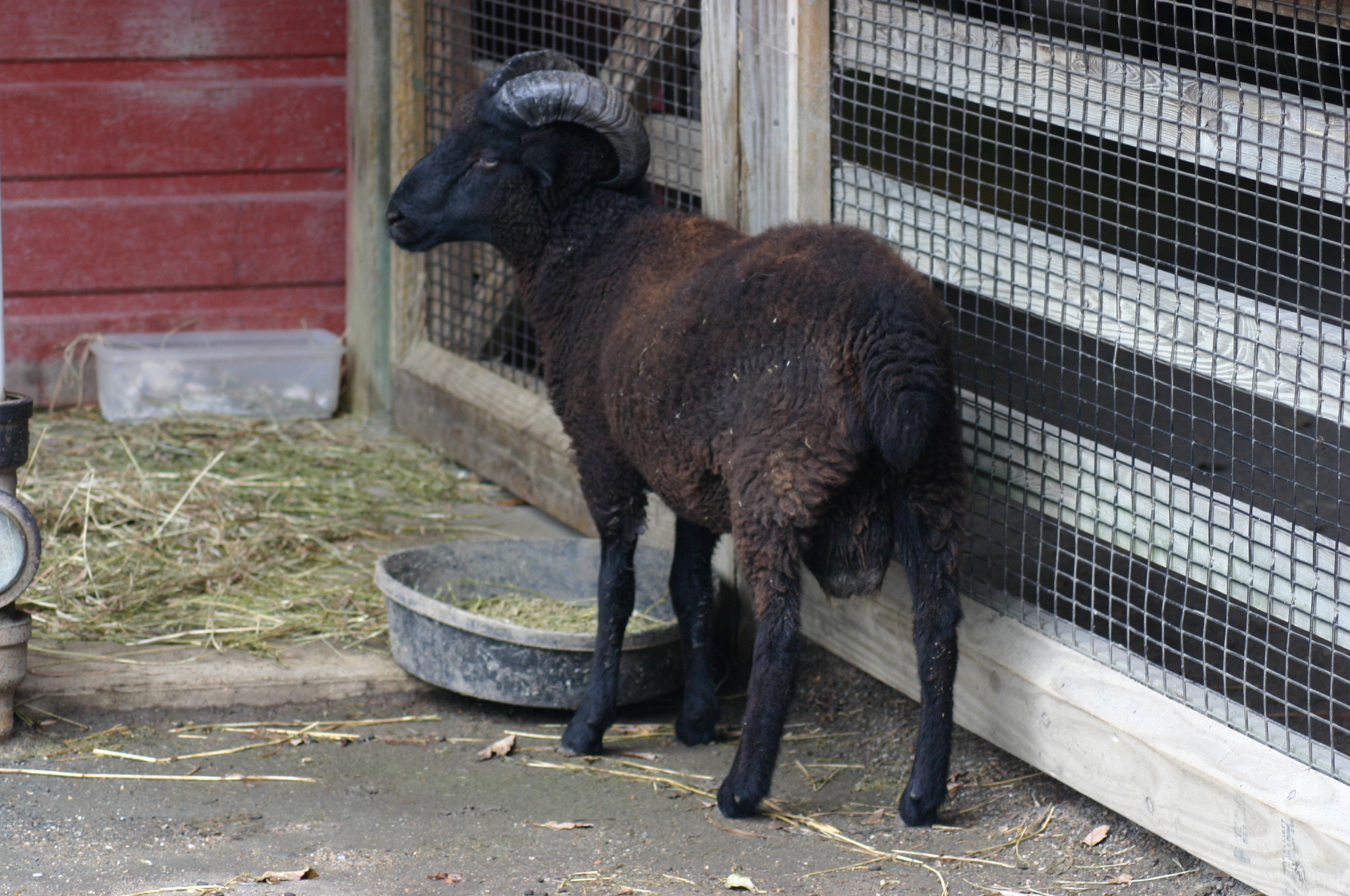 A dark Hog Island sheep at the Virginia Zoo in Norfolk